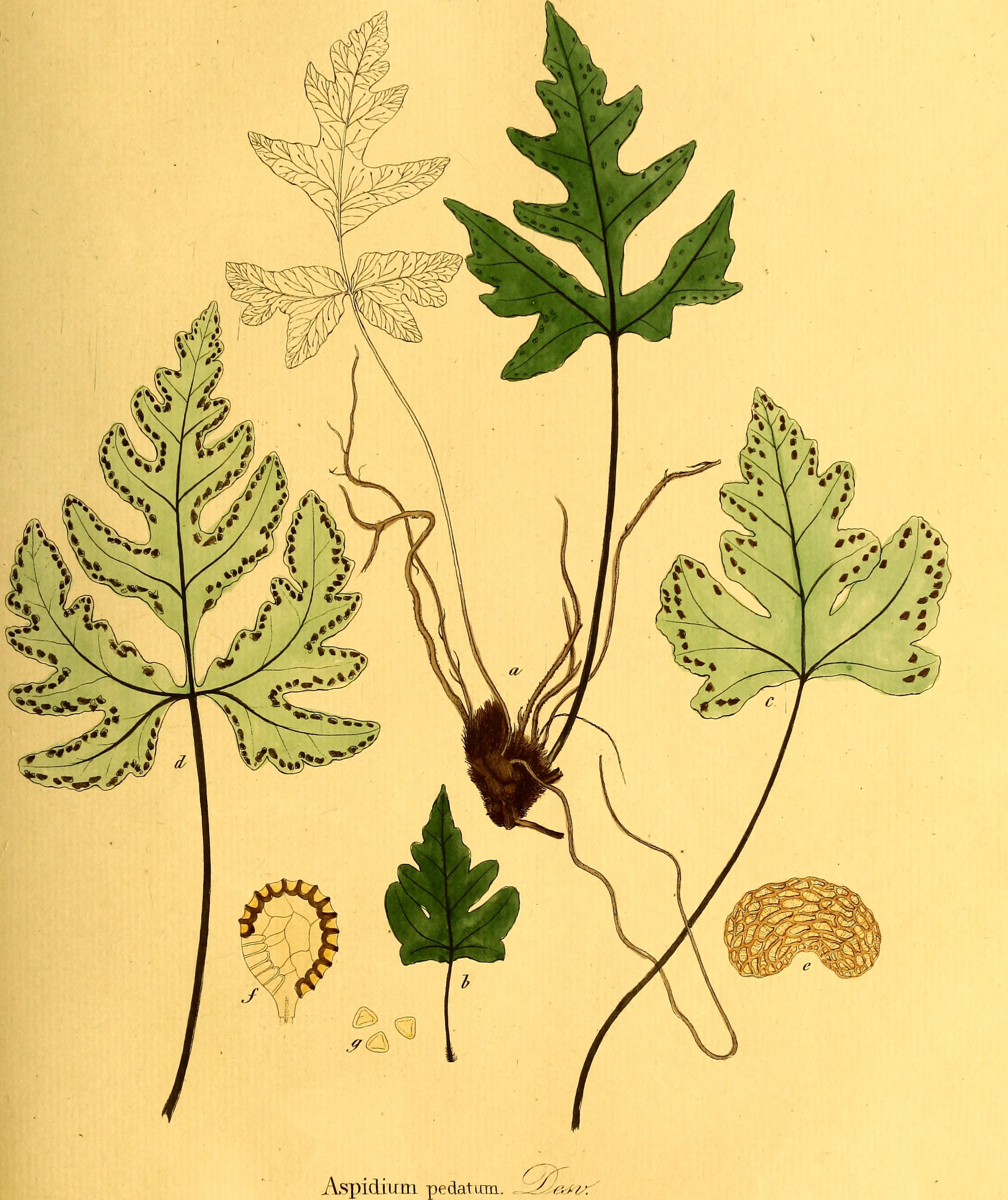 Title: Die Farrnkräuter in kolorirten Abbildungen naturgetreu Erläutert und Beschrieben Year: 1840 (1840s) Authors: Kunze, Gustav, 1793-1851 Subjects: Ferns Publisher: Leipzig, E. Fleischer Text Appearing Before Image: Tal). LUV. Text Appearing After Image: '